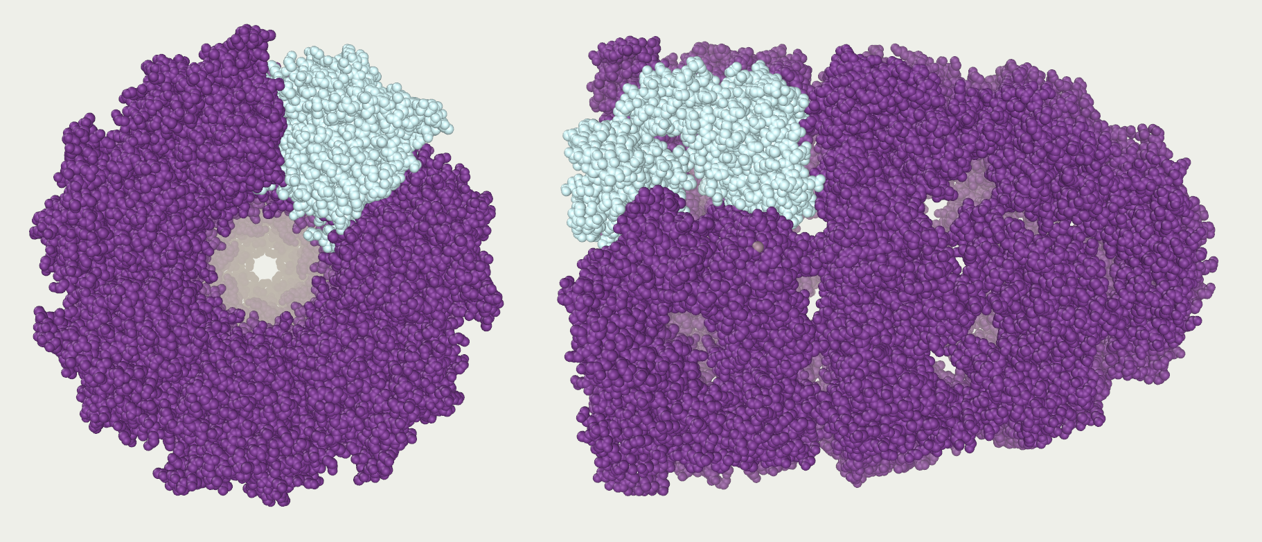 The crystal structure of the asymmetric GroEL-GroES-(ADP)7 chaperonin complex. Chaperonins assist protein folding. Picture created by Abalone program.